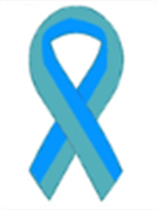 Awareness ribbon for sexual harassment and assault at the hands of educators. Combines teal, the awareness color for sexual assault, and light blue, the awareness color for child abuse (most victims of sexual assault at the hands of educators are not children; however, the same power dynamic which silences victims is at play in this type of harassment, assault and abuse).